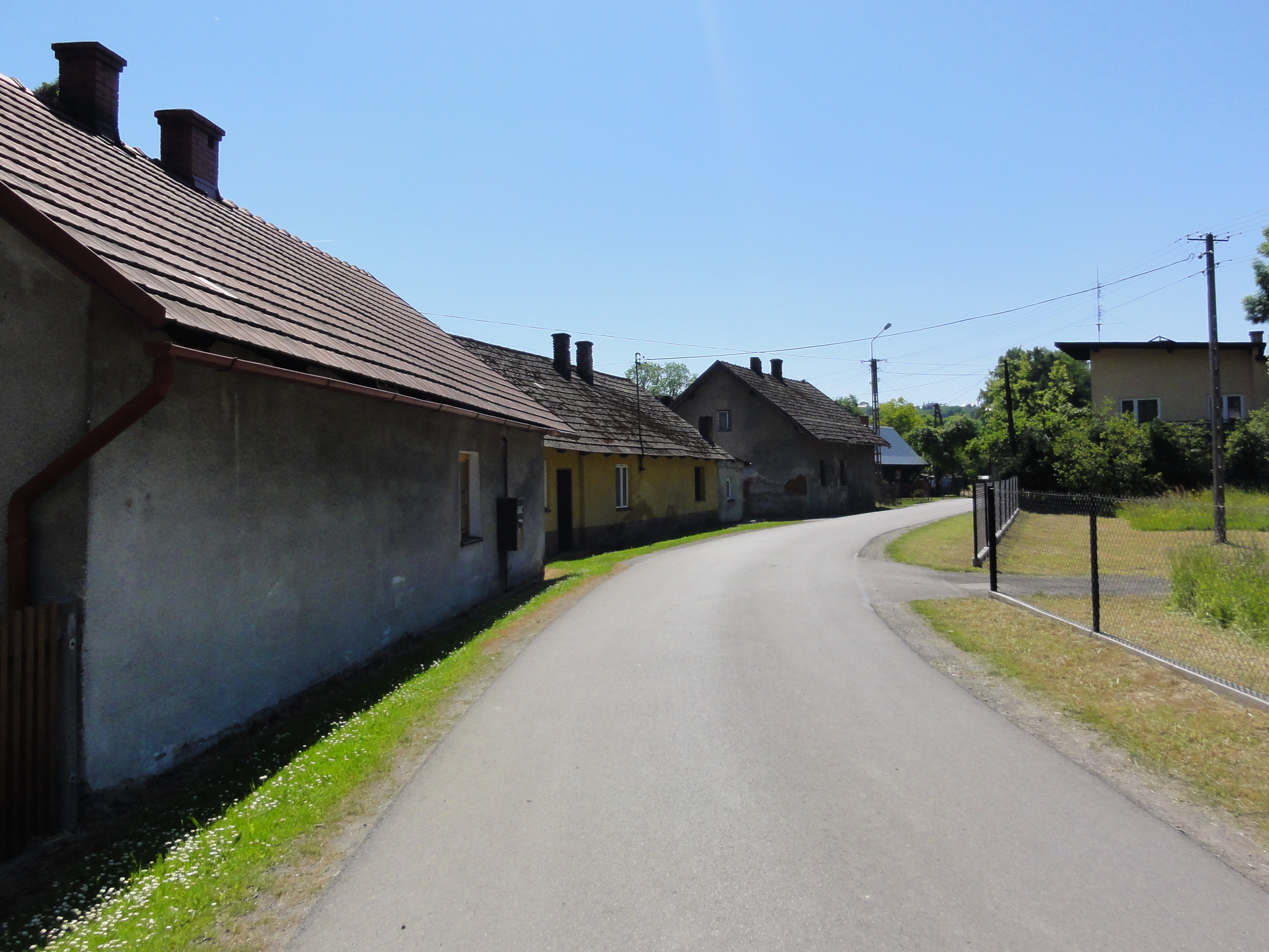 Central Street in Kiczyce